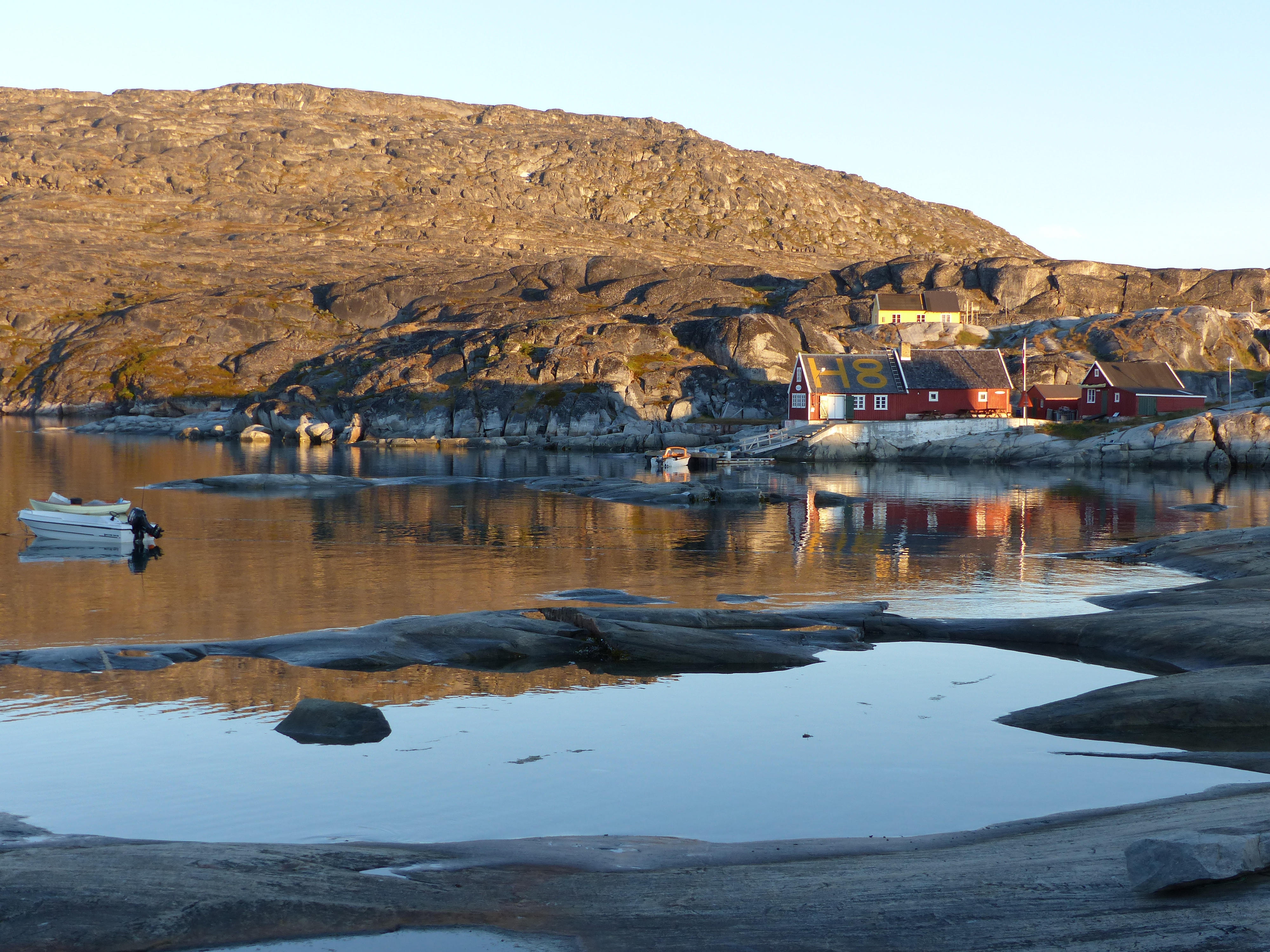 Oqaatsut Bay, view to South, 2015